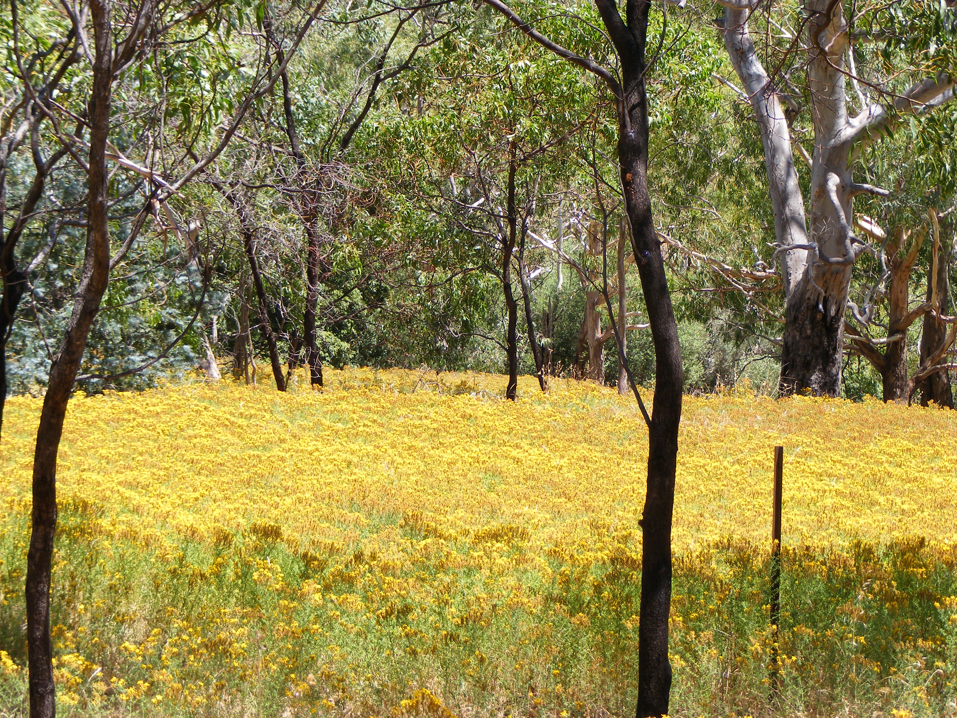 A field of St John's Wort (Hypericum perforatum), beginning of summer. Belair National Park, South Australia